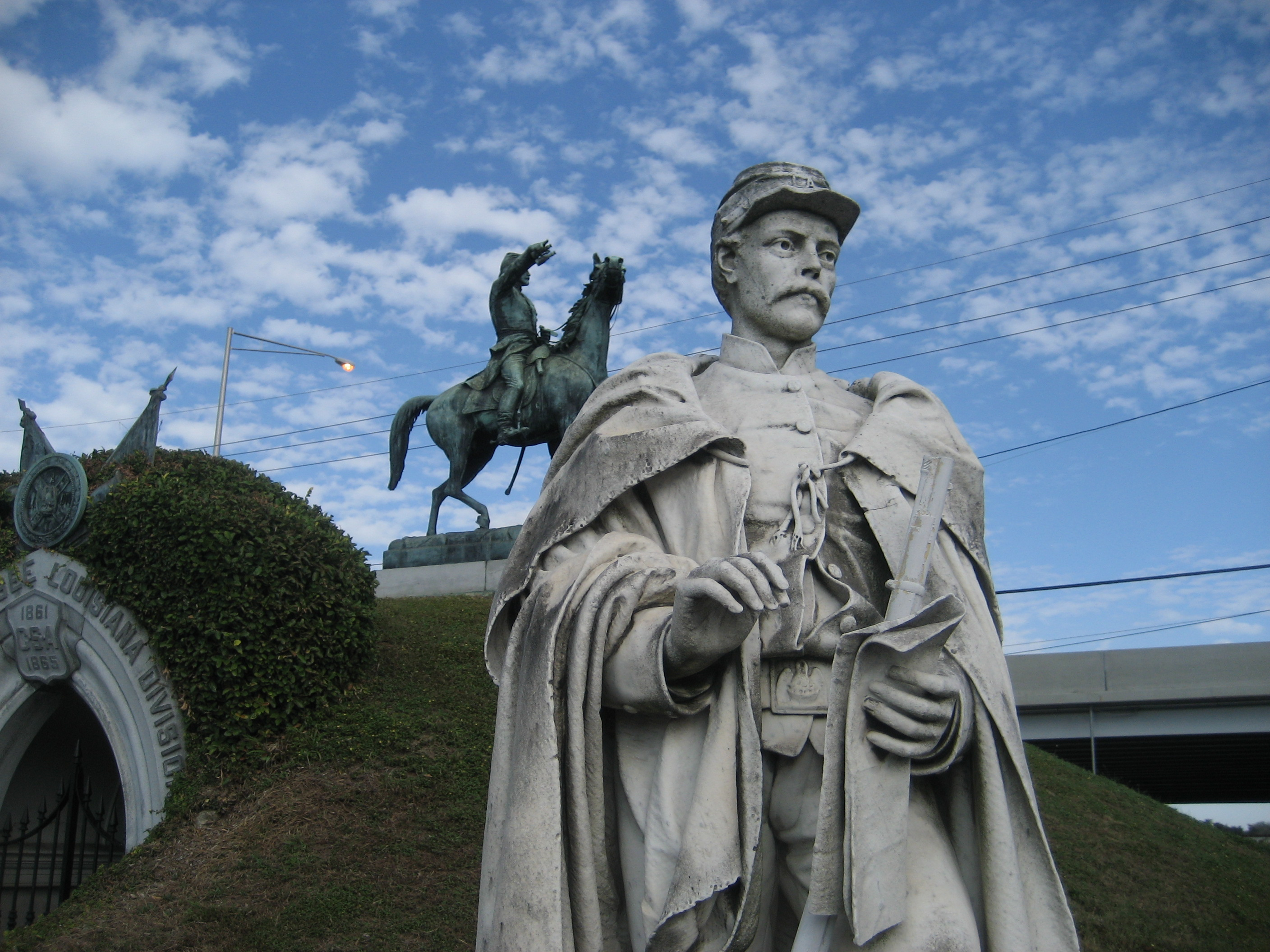 Metairie Cemetery, New Orleans. In front of "Army of Tennessee" Confederate memorial tomb is this 1885 scupture by Alexander Doyle (1857 - 1922). The life size statue represents a Confederate officer about to read the roll of the dead during the American Civil War. The statue is said to have been modeled after Sergeant William Brunet of the Louisiana Guard Battery, but is intended to symbolically represent all Confederate soldiers. In the background is Doyle's 1877 equestrian bronze of General Albert Sidney Johnston.